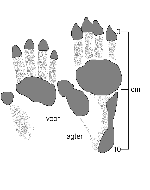 The spoor of a baboon.